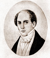 Portrait of Venezuelan diplomat and politician Santos Michelena (1797-1848).